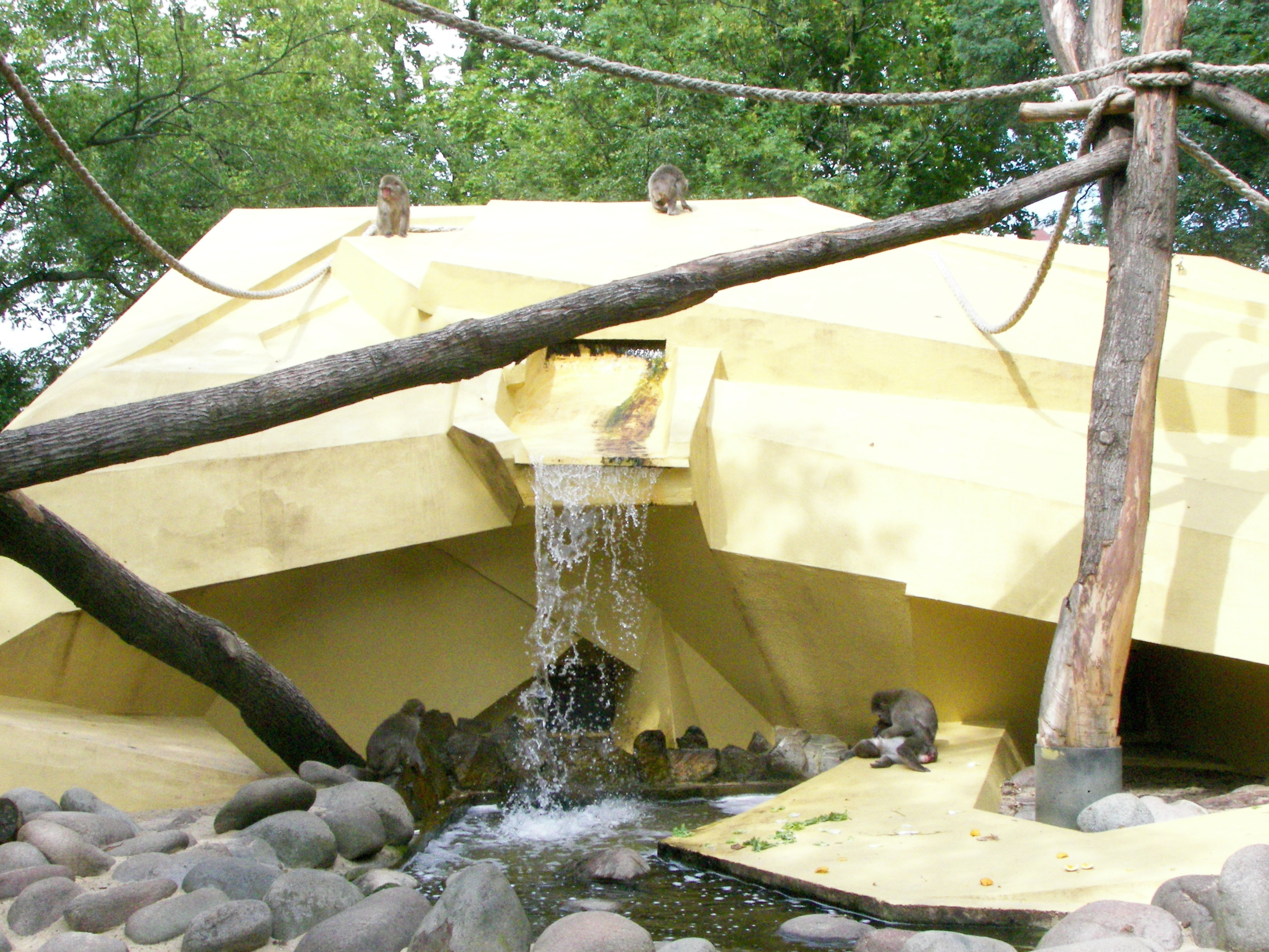 Famous "monkey rock" (apenrots) near the entrance of Artis Zoo, Amsterdam. The monkeys are Japanese Macaques (Macaca fuscata).